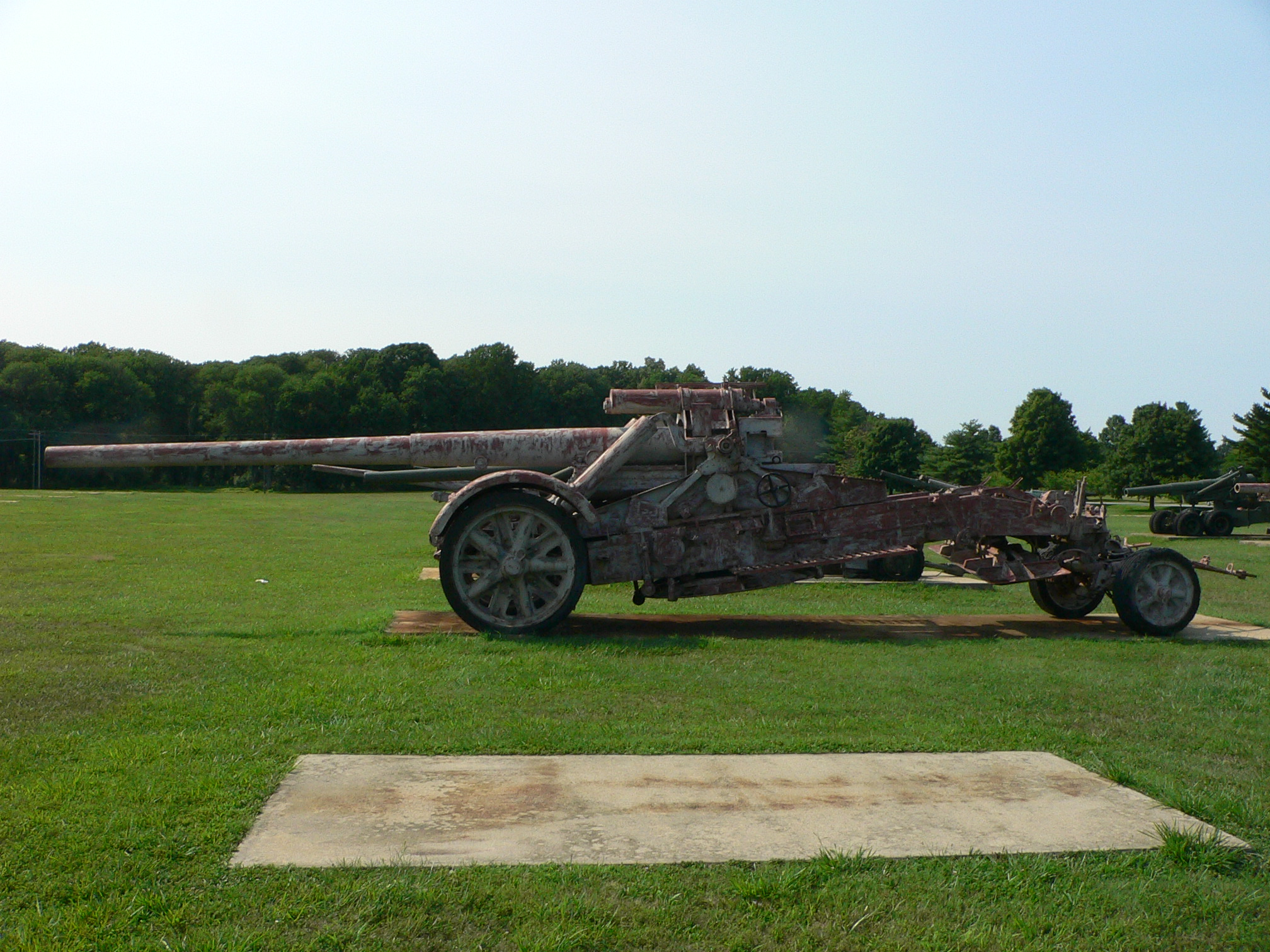 Picture taken by myself, Mark Pellegrini, at the United States Army Ordnance Museum (Aberdeen Proving Ground, MD) on August 14, 2007.